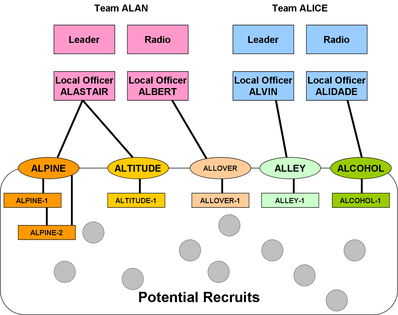 Clandestine cell after some recruiting, nonofficial cover leadership